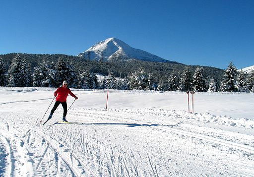 South tyrolean Schwarzhorn from Passo Lavazè.